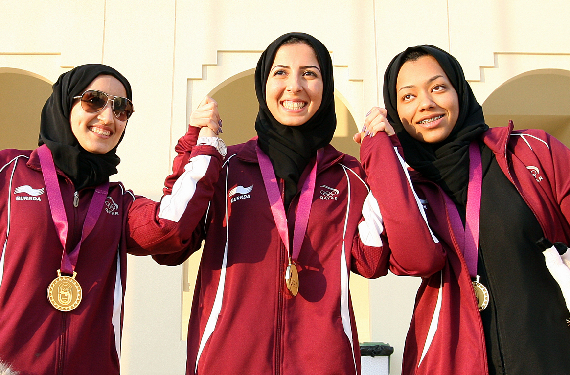 Qatar's Shaikha Khalaf Al Mohammed, Mehbubeh Akhlaghi and Bahiya Mansour Al Hamad celebrate their 50M rifle prone triumph in the Doha Arab Games at the Lusail Shooting Range. Picture by Mohan